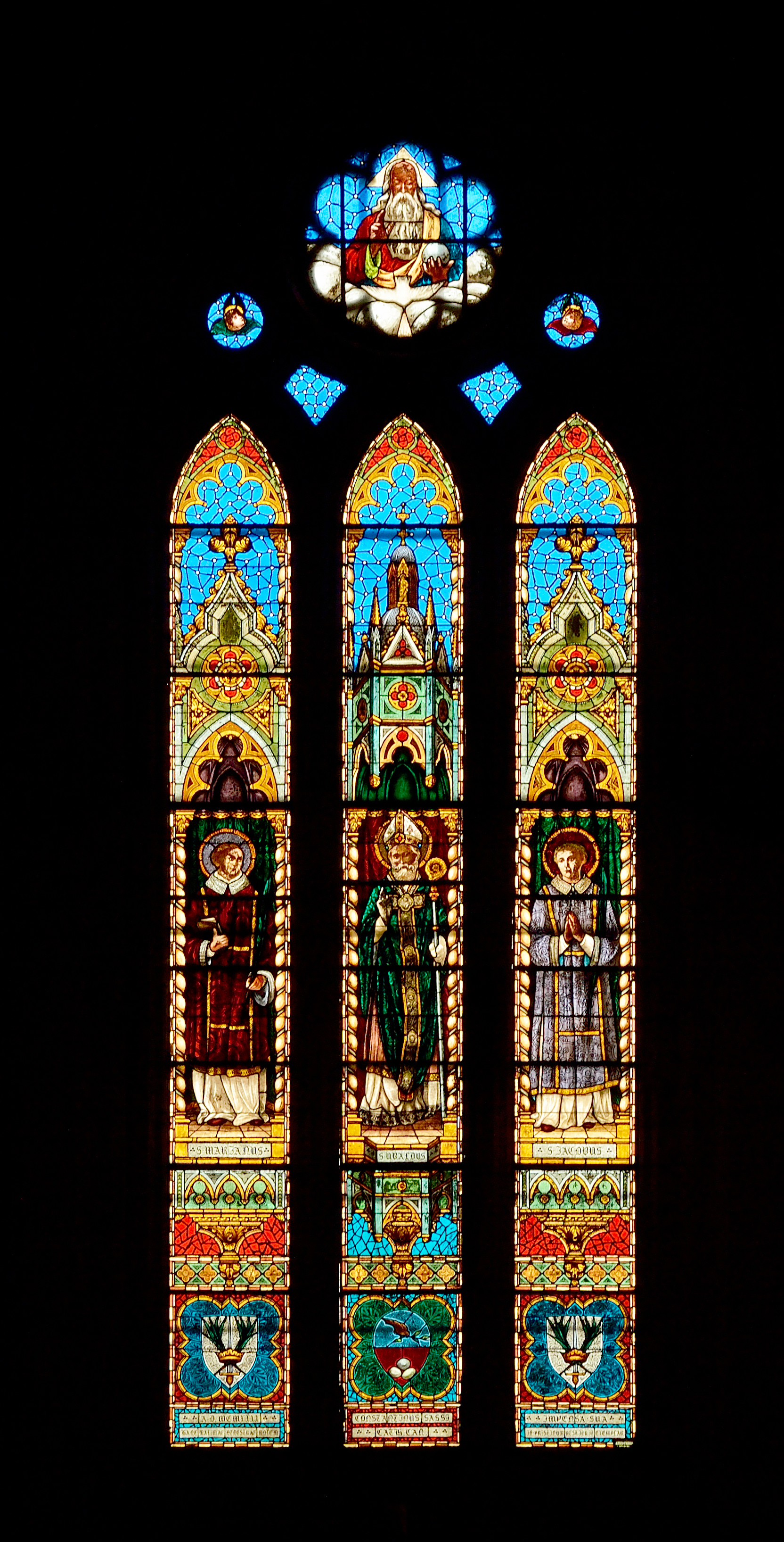 Medieval windows of Duomo (Gubbio)